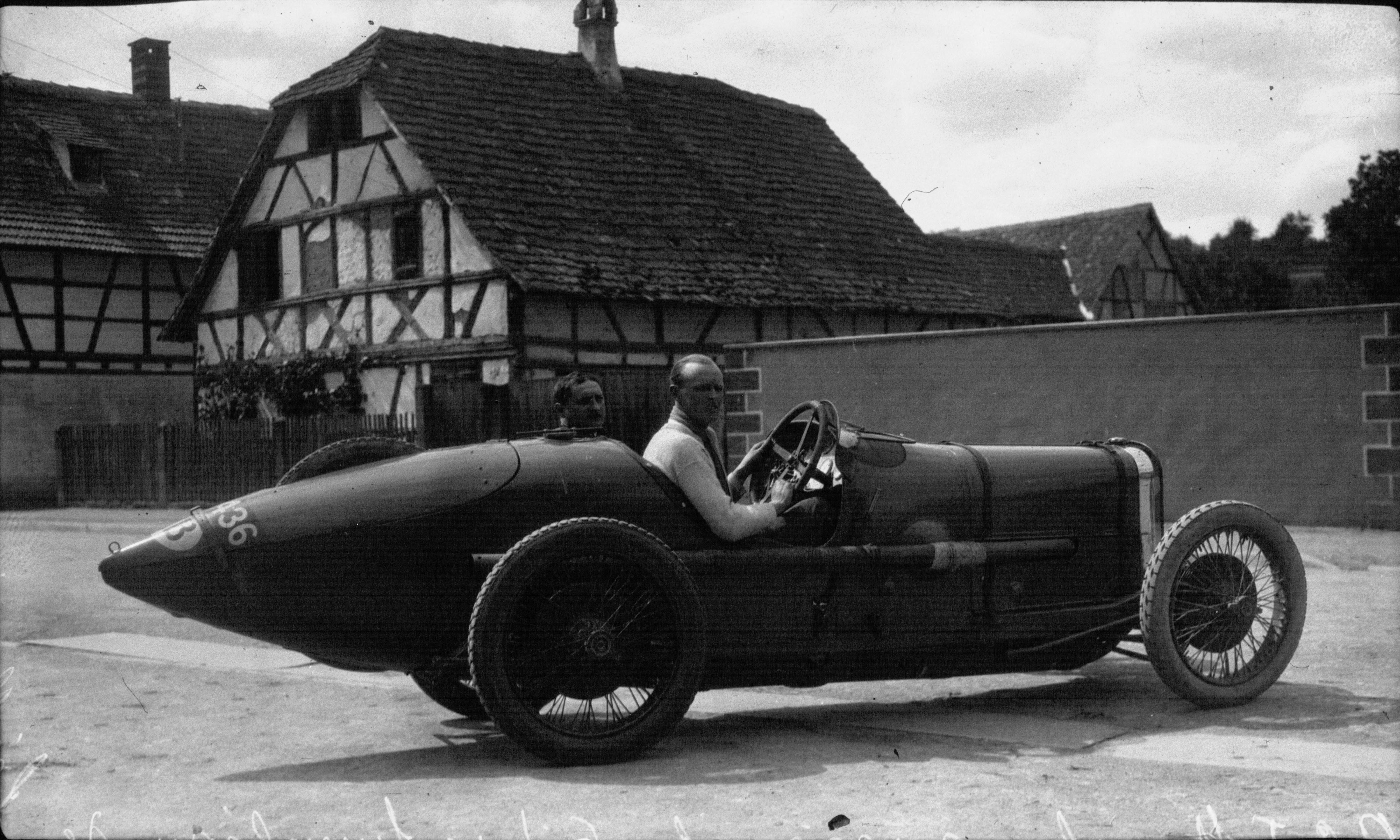 Henry Segrave at the 1922 French Grand Prix